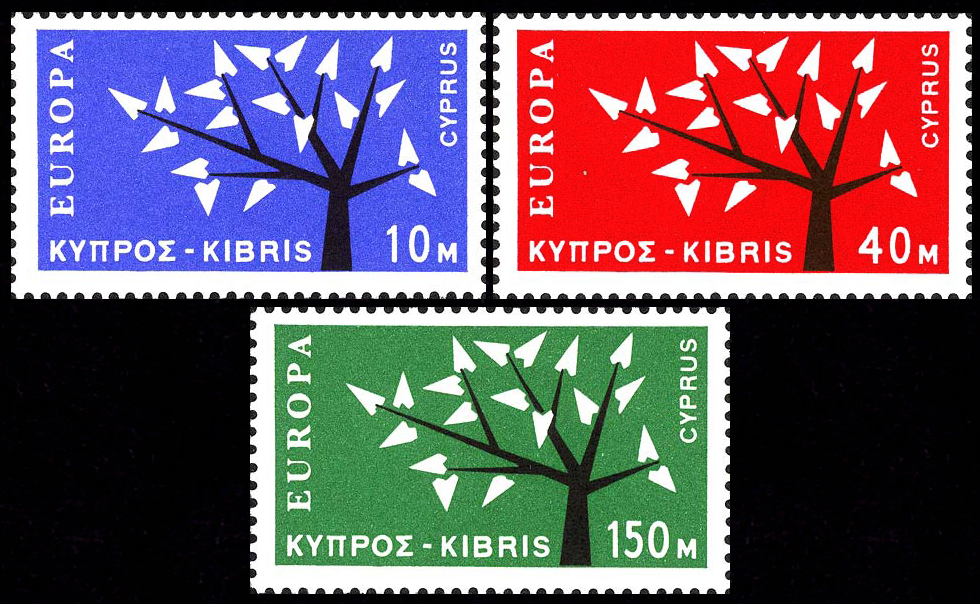 Postage stamps of Cyprus, 1962. Issue on the program EUROPE-CEPT